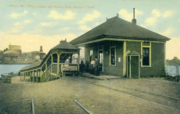 Ferry landing and waiting room, Badger's Island, Kittery, Maine. This was the terminus for the Portsmouth, Kittery & York Street Railway, which began operations in 1897 and closed in 1923.